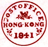 Postmark of British Hong Kong, 1841. 粵語: 1841年香港郵戳